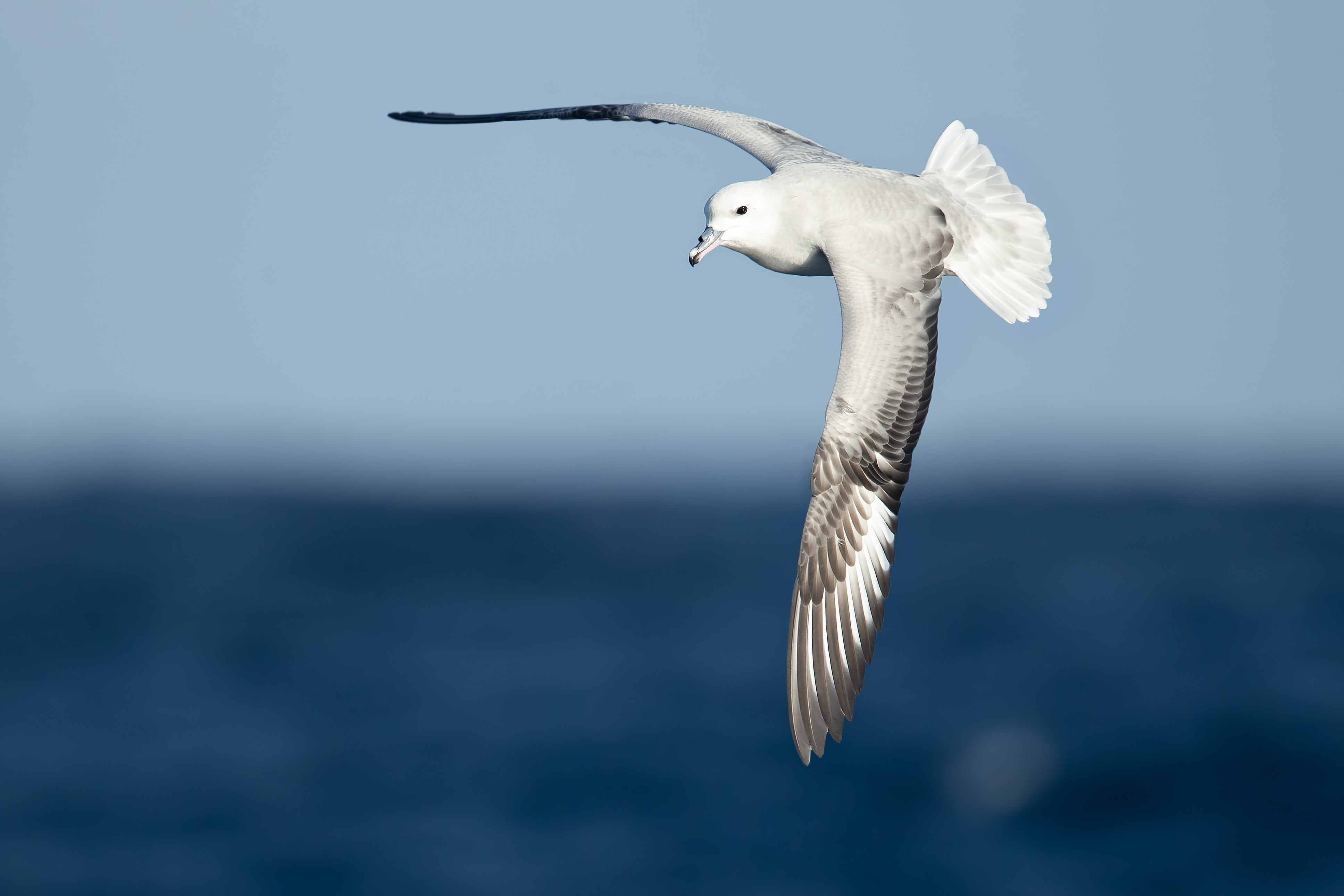 Southern Fulmar (Fulmarus glacialoides) in flight, East of the Tasman Peninsula, Tasmania, Australia